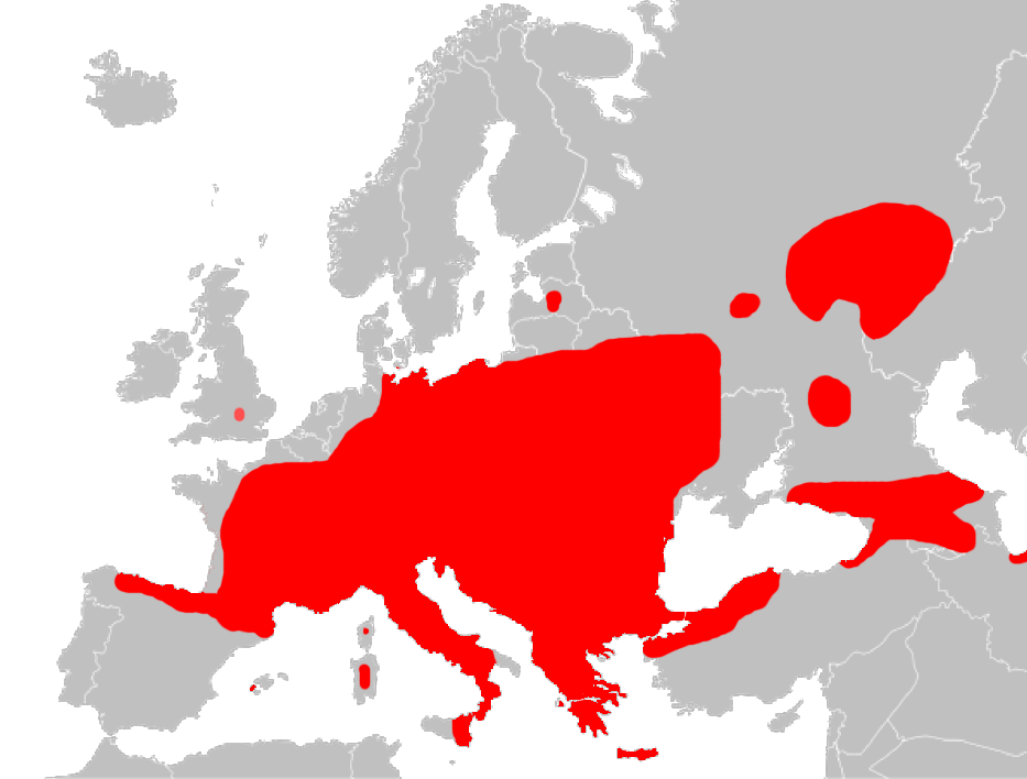 Distribution map of fat dormouse (Glis glis). Original zone (red) and zone where it has been introduded (pink).